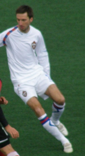 Deividas Šemberas in action for PFC CSKA Moscow